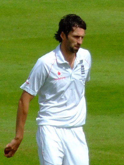 5th Day, 3rd Test: England v Australia, Edgbaston, 3rd August 2009 Graham Onions